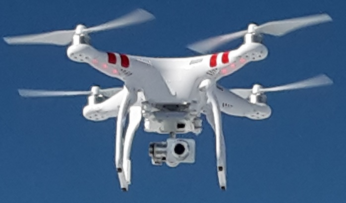 DJI Phantom 2 Vision+ V3 of user Capricorn4049. Recordings with this UAS can be found here